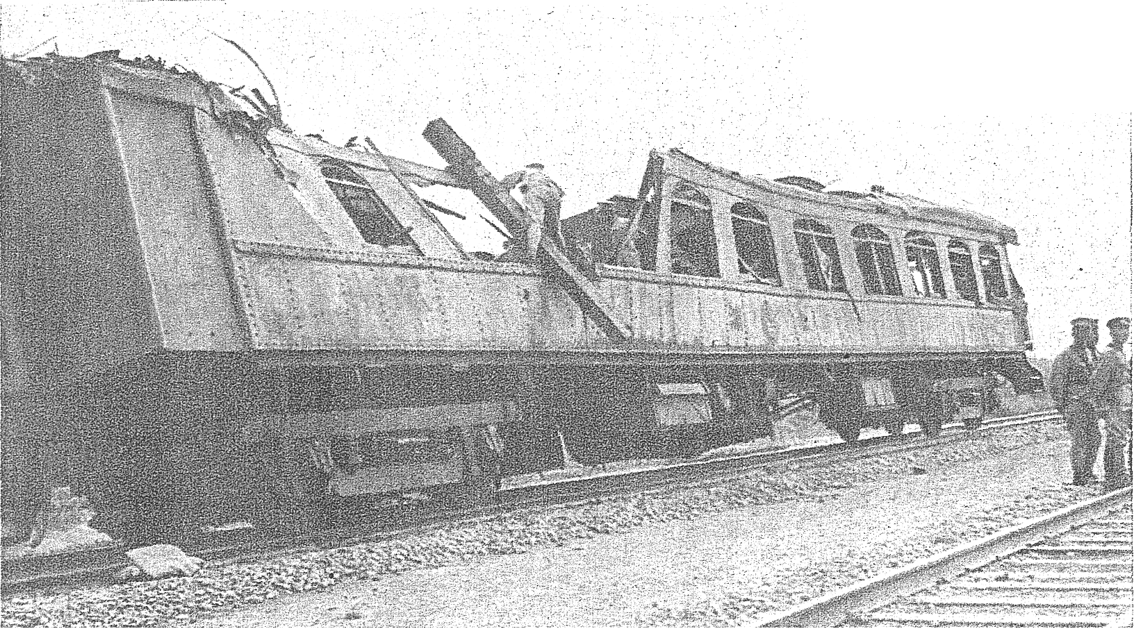 Wreck of Chang Tso-lin's saloon coach